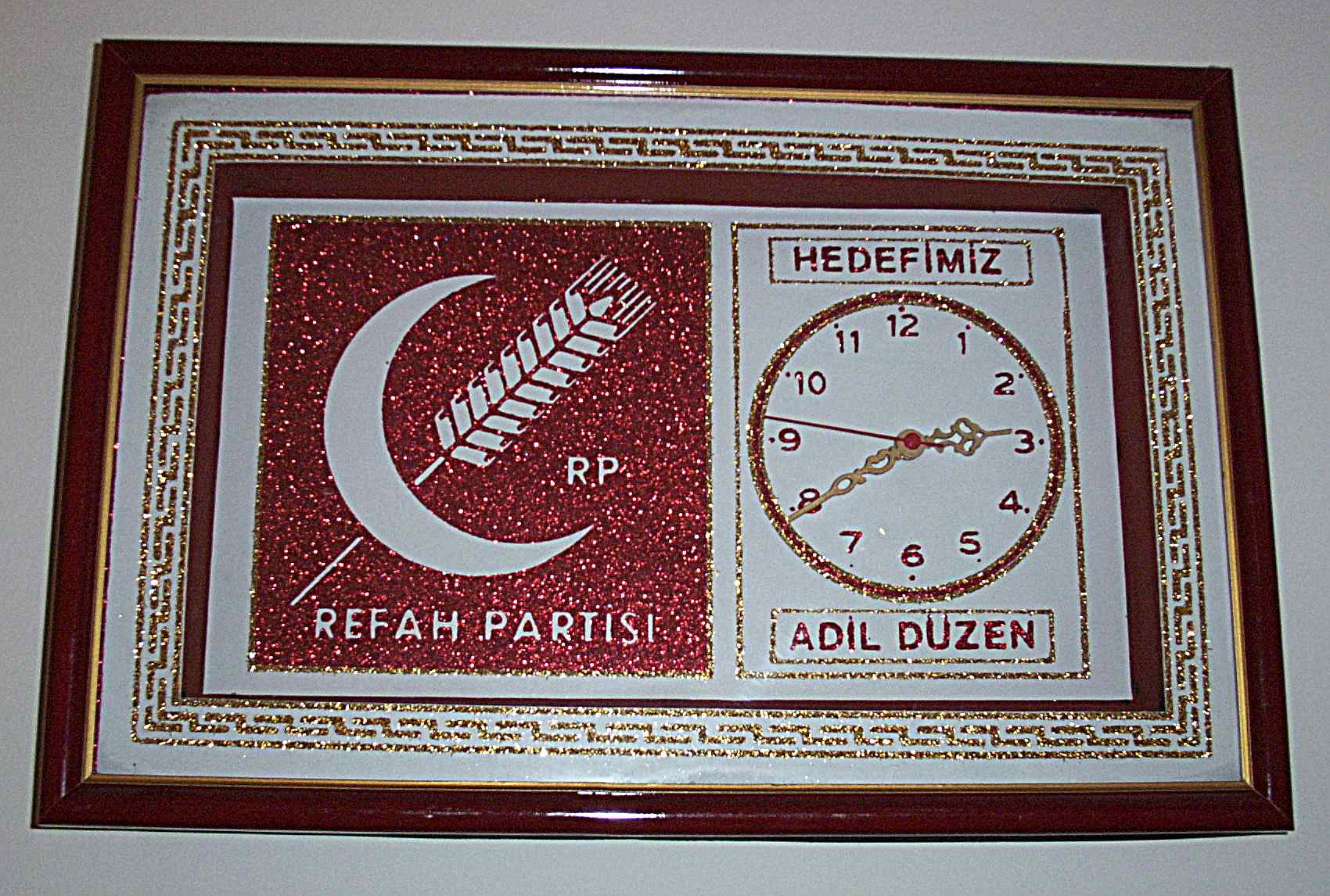 A clock bearing the emblem of the banned Turkish Islamist political party Refah Partisi. The slogan translates as "Justice is our goal." Taken by ProhibitOnions, 2006. Translation of the party slogan: "Our goal is just order"